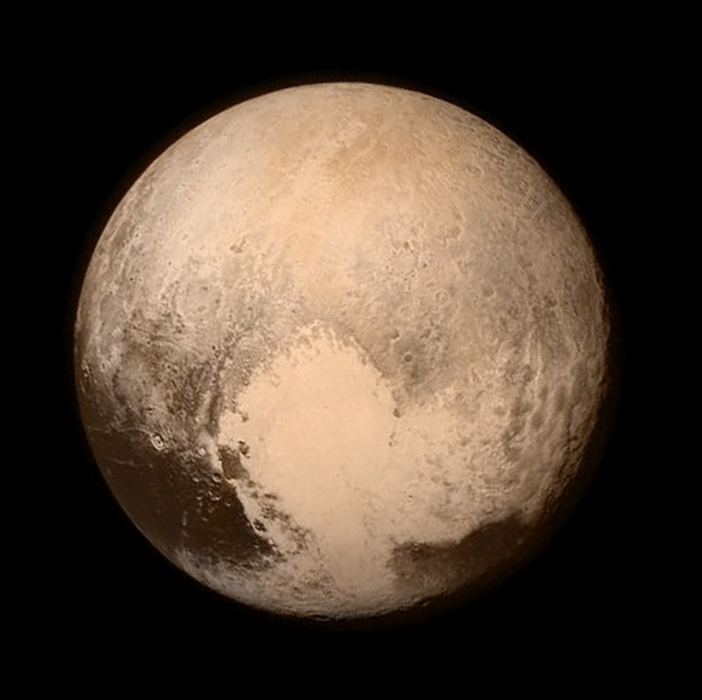 Pluto as seen from the New Horizons probe on July 13th, 2015.